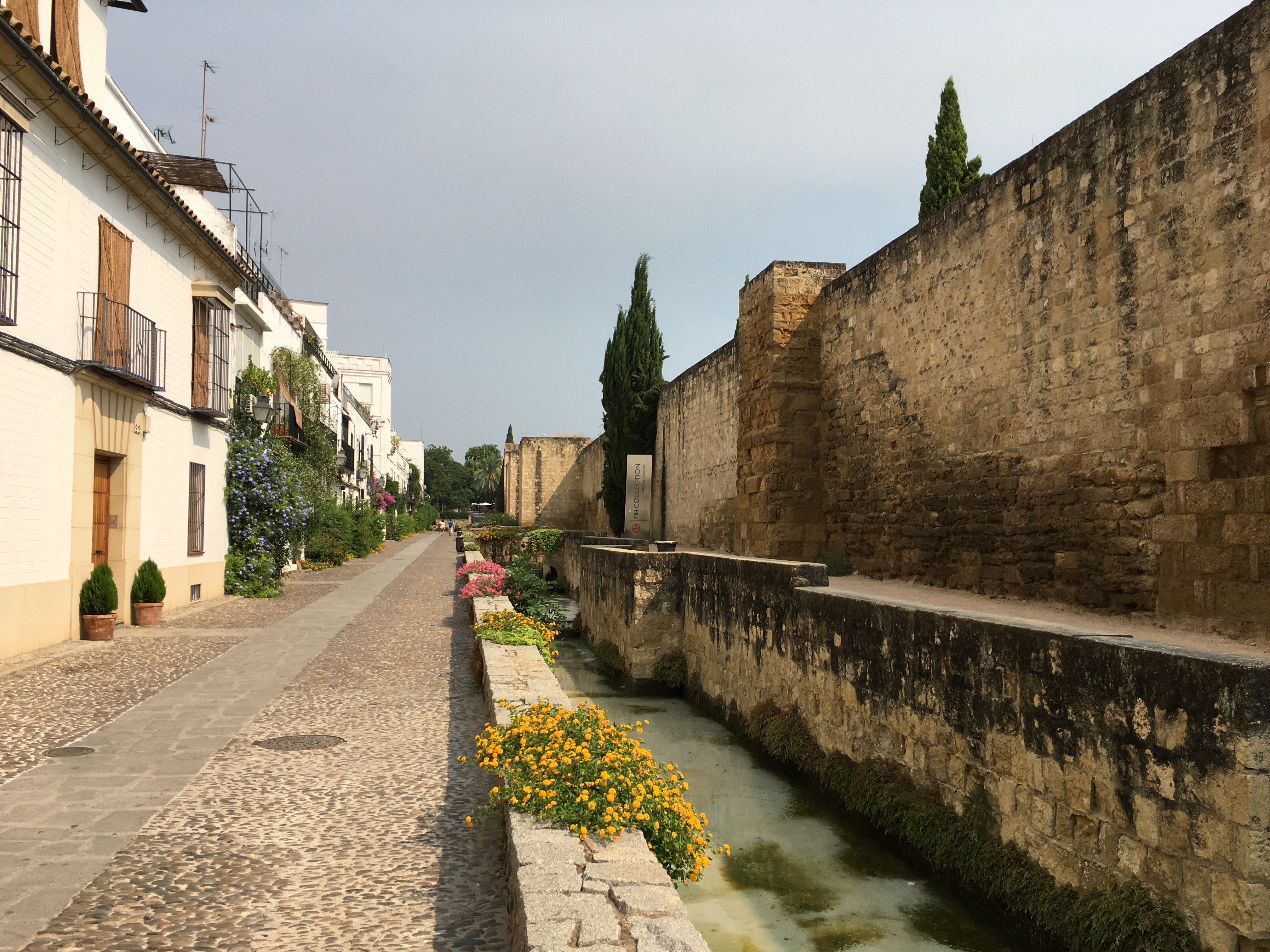 Cordoba City Walls, Córdoba (Spain)